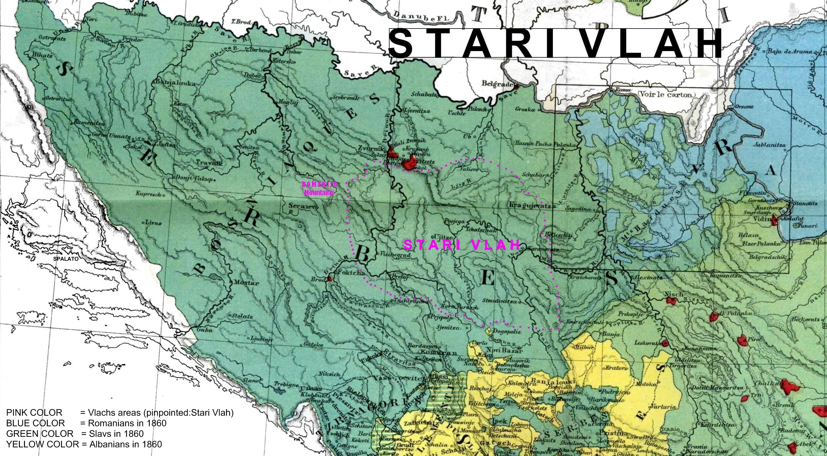 Map of the "Stari Vlah" area in 1860. I have cut the original map from Wiki Commons: , then I have added data with my software. I have pinpointed (with pink points) the territory of Stari Vlah in Bosnia and Serbia, according to academic research of prof. Marko Vego and others.